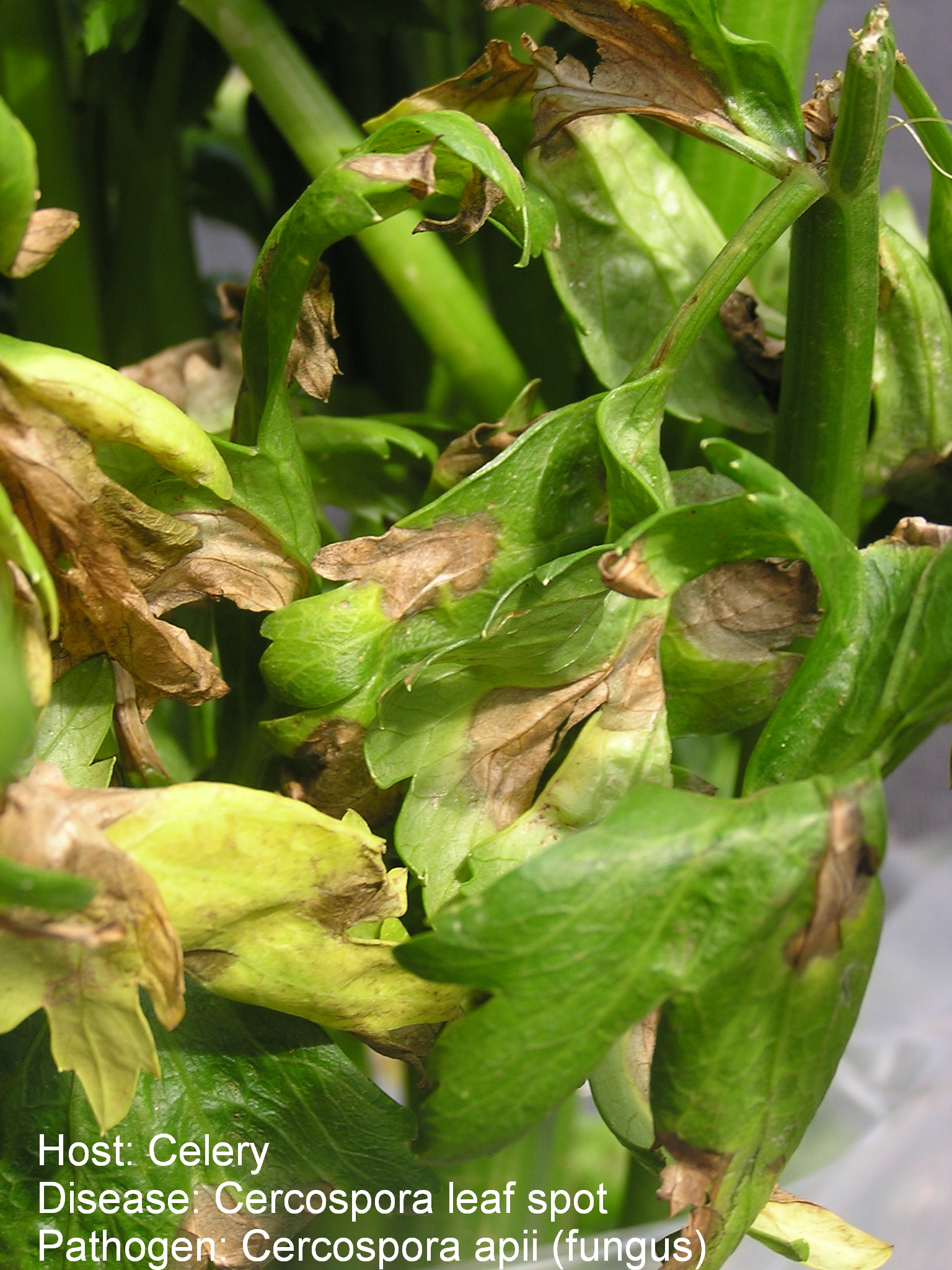 Cercospora leaf spot of celery caused by Cercospora apii.